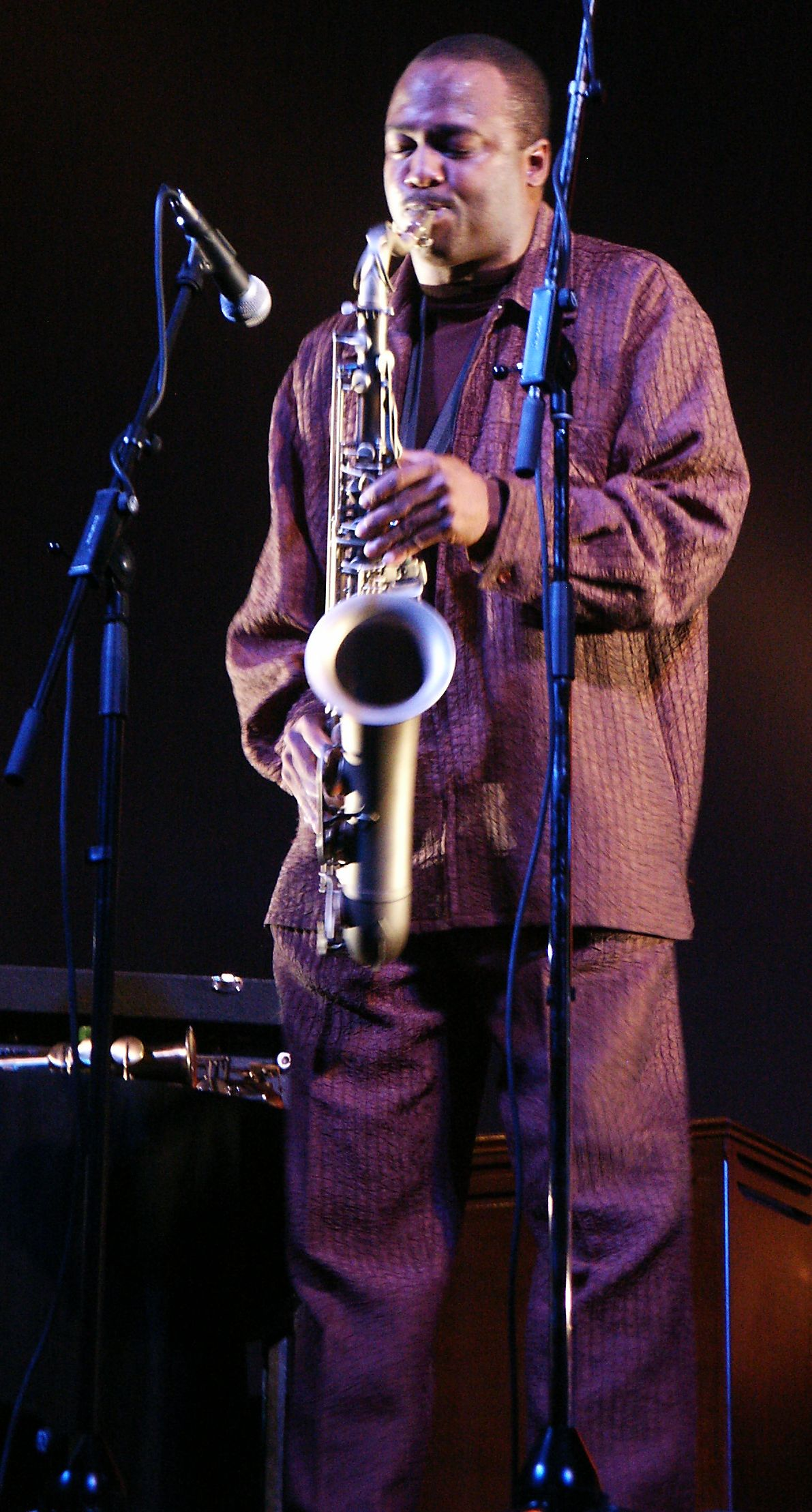 James Carter 2006-08-03 live in the Lehartheater of Bad Ischl unforunately, due to bad lighting and seating conditions, couldn't make a better picture picture taken and uploaded by myself D. Höss. licenced under the GFDL fo shizzle!